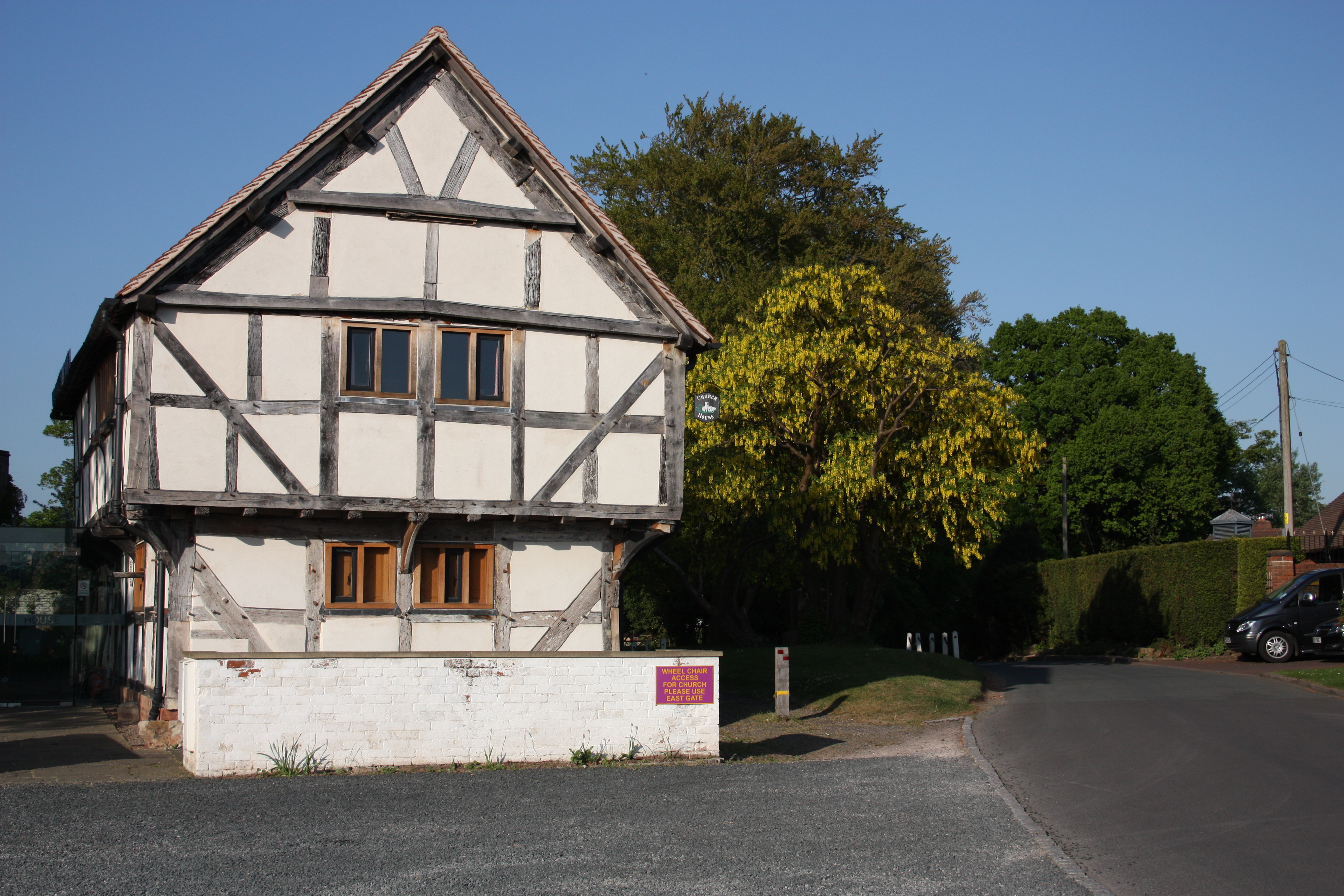 The Church House, Areley Kings, Worcestershire